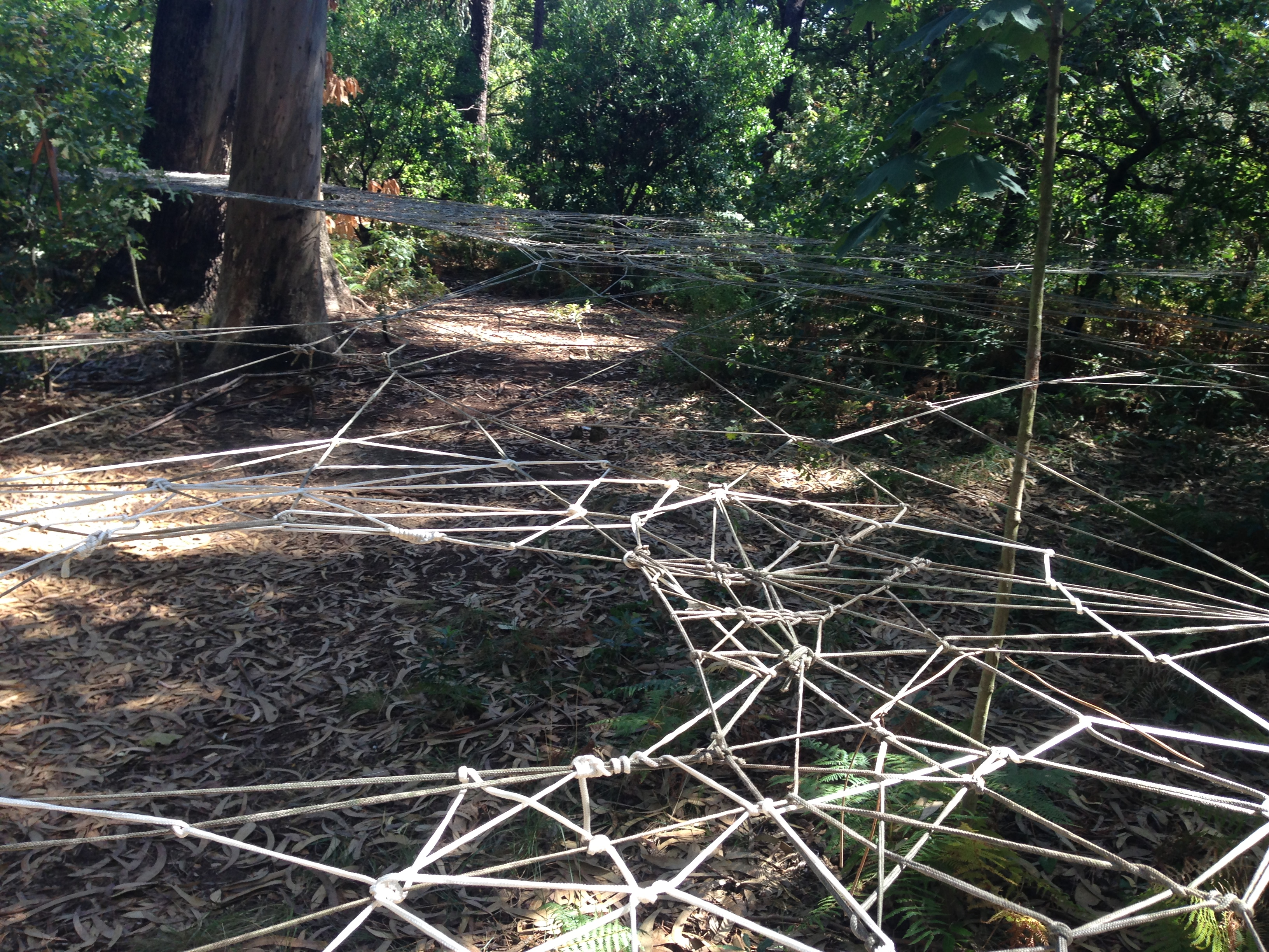 Partial view of untitled work by Fernanda Gomes, in Museu Serralves, Oporto.